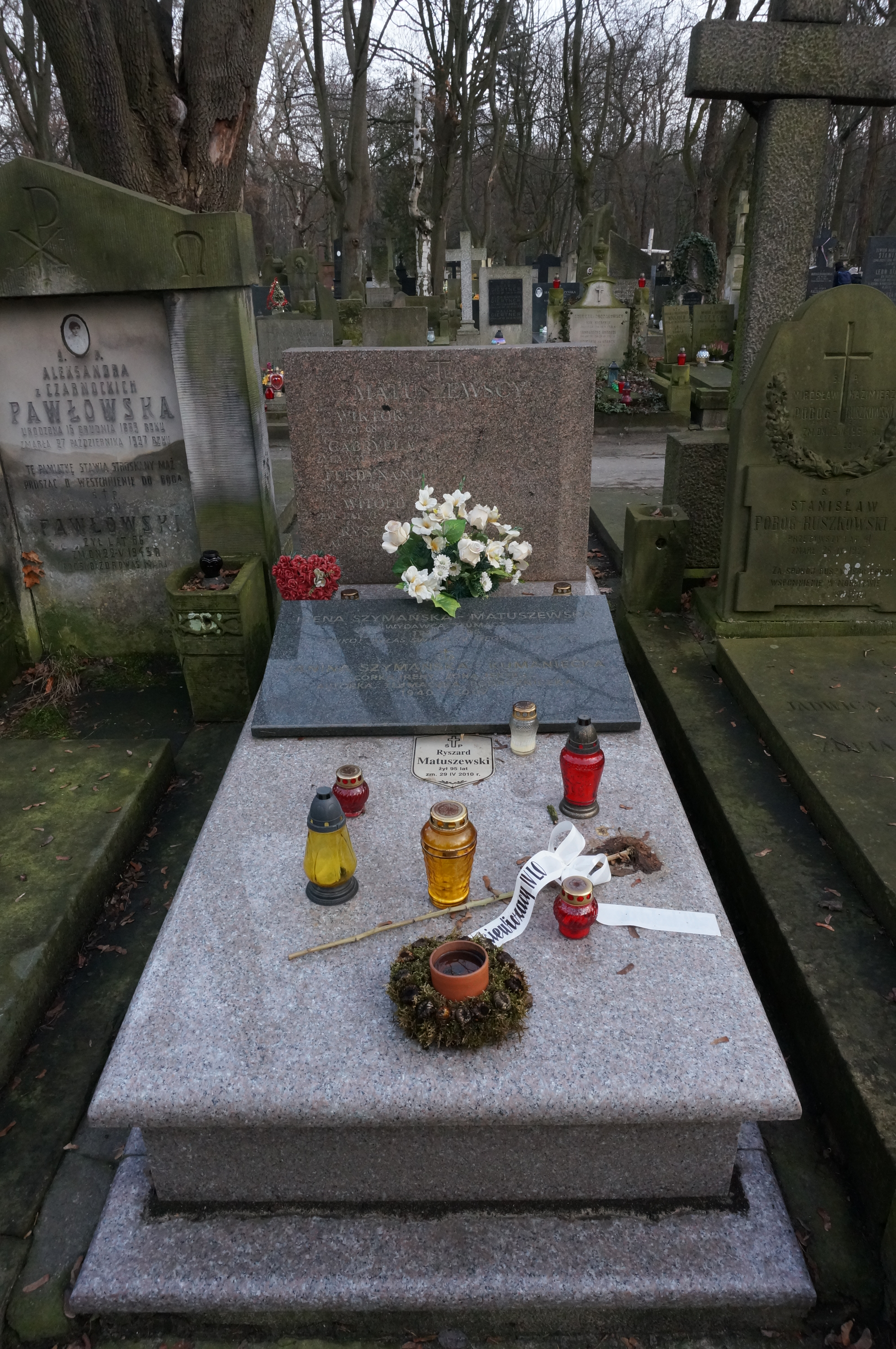 The grave of Irena Szymańska at the Powązki Cemetery (section 237, row 2, grave 23)